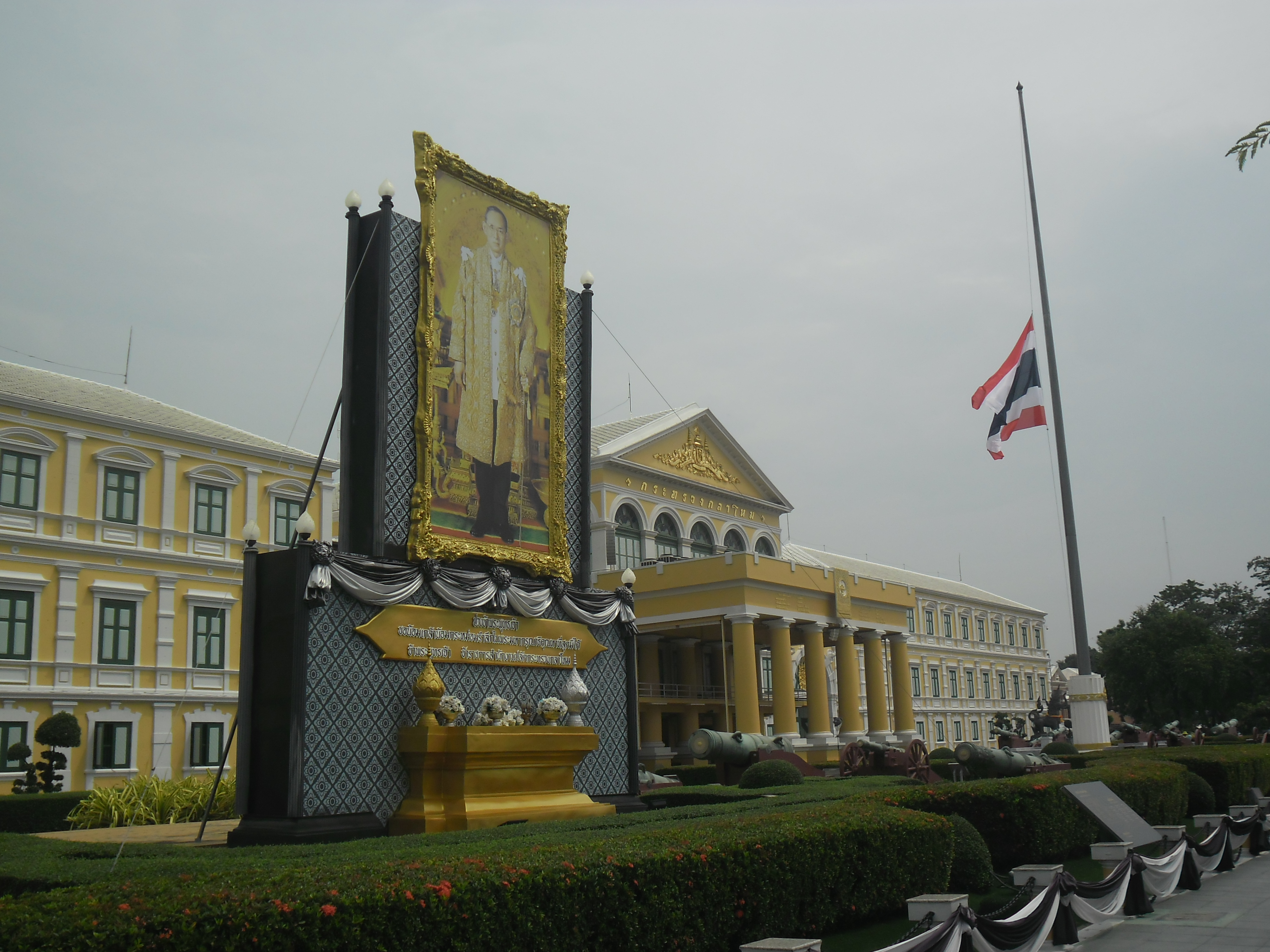 Half mast for the Thai national flag in occasion of the royal cremation ceremony of HM the Late King Bhumibol Adulyadej of Thailand. This photo was taken at October 13, 2017.